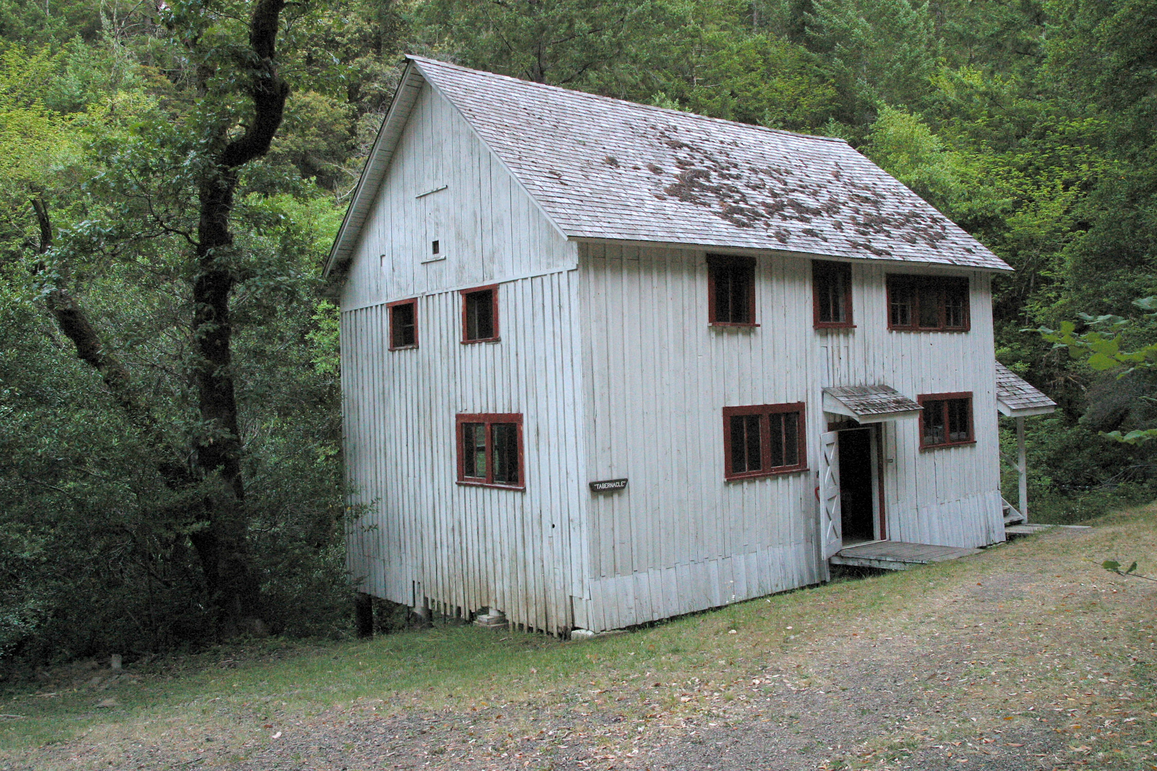 Rogue River Ranch building know as the “tabernacle” (originally built as a barn); the ranch is located on the north shore of the Rogue River at the mouth of Mule Creek in Curry County, Oregon